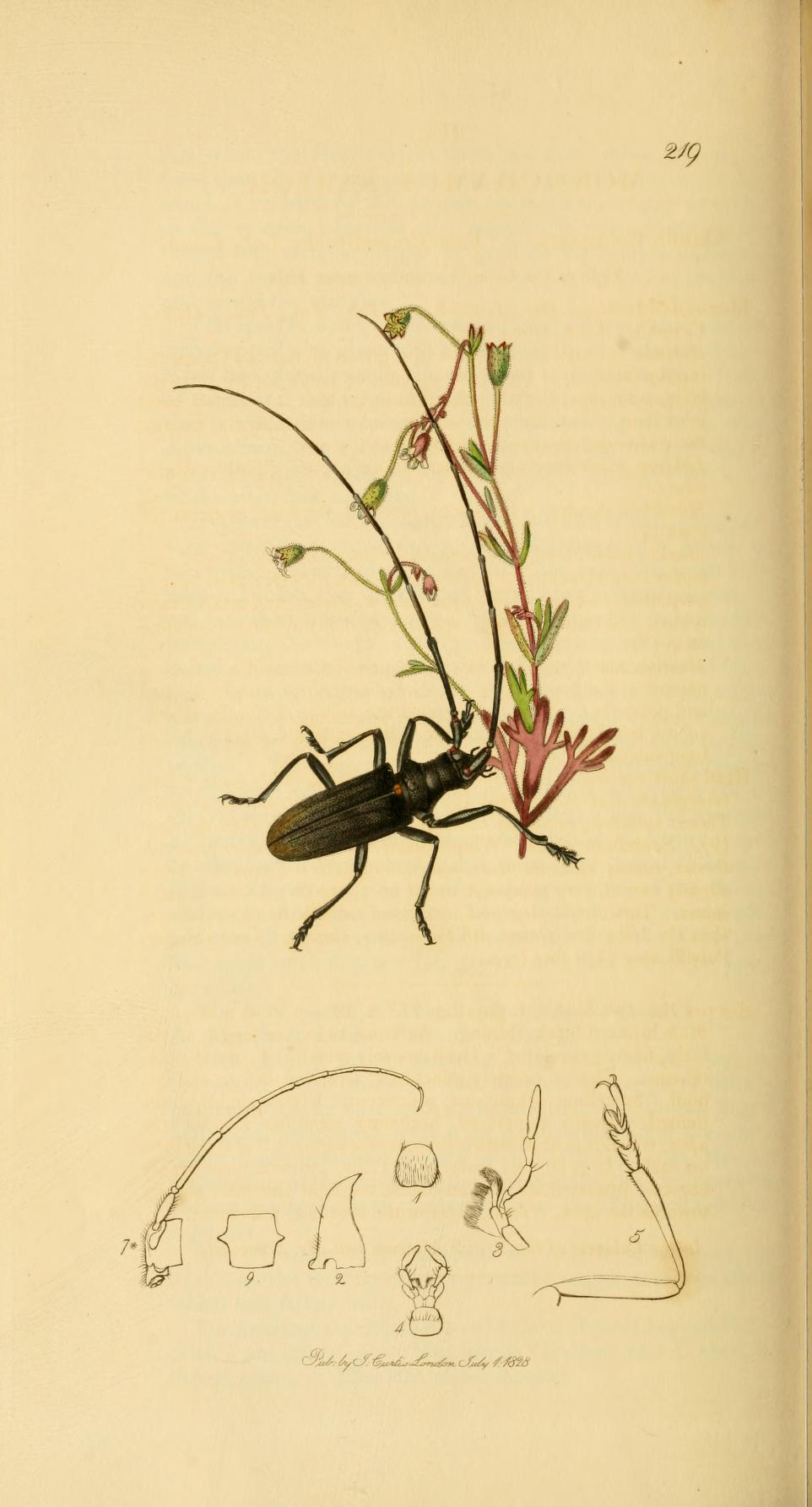 An illustration from British Entomology by John Curtis. Monochamus sartor (Genus omitted from Pope’s Check List).The plant is Saxifraga tridactylites (Rue-leaved Saxifrage)